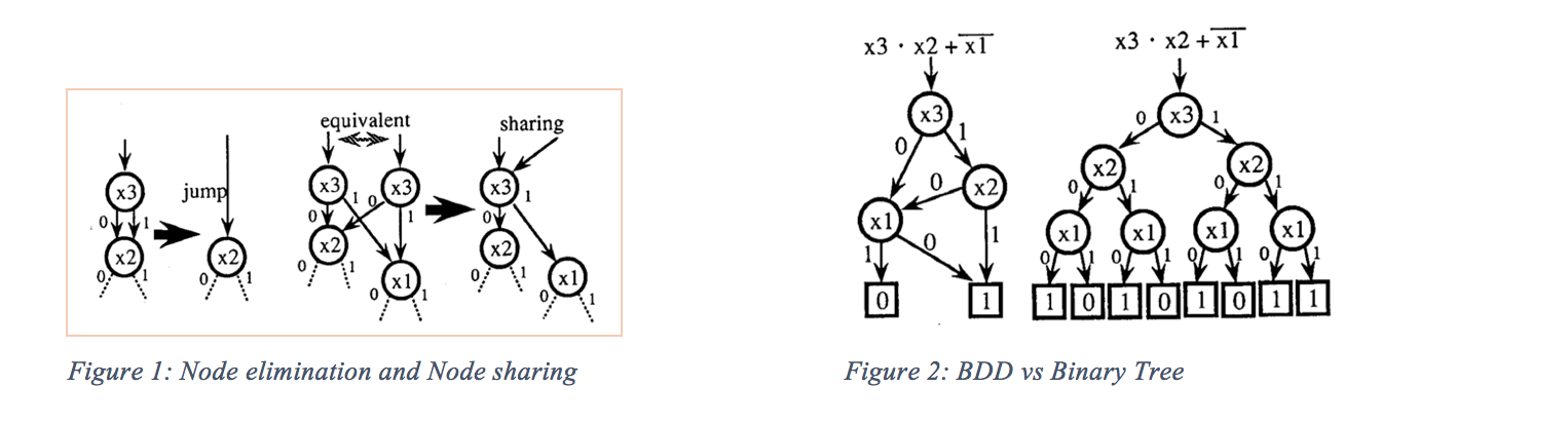 ZDD node elimination and node sharing